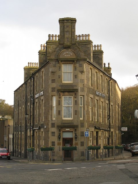 Shortest Street Dated 1883, Ebenezer Place, is entered in the Guinness Book of Records as the world's shortest street, measuring 2.06 m (6 ft 9 in). The address "1 Ebenezer Place" and is part of Mackays Hotel.